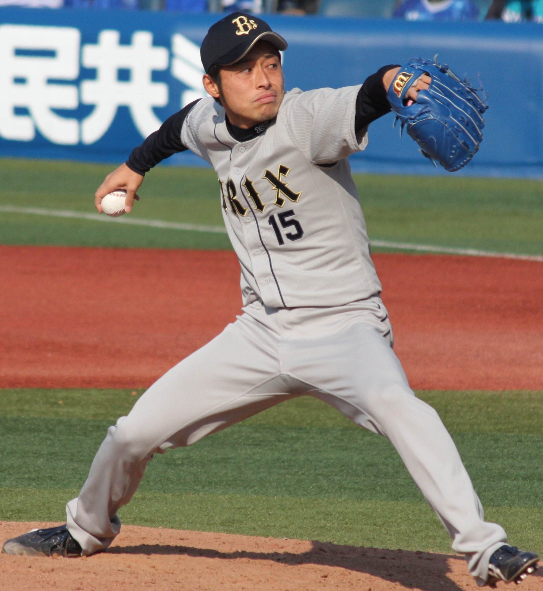 Tatsuya Sato, pitcher of the Orix Buffaloes, at Yokohama Stadium.